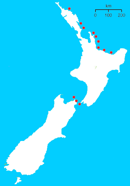 Tuatara_(Sphenodon)_Distribution